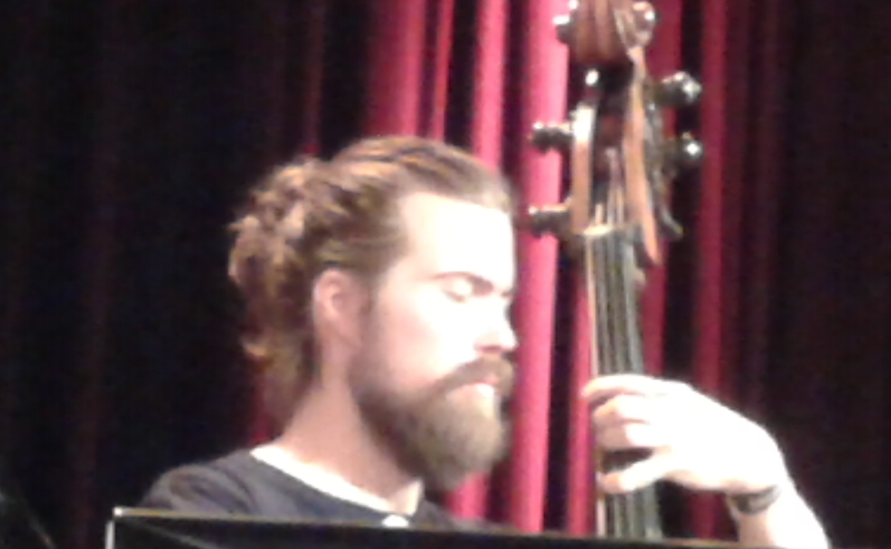 Christian Meaas Svendsen at Nattjazz May 30, 2015.jpg